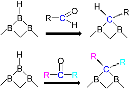 Formation of Corboranes via Brellochs-Reaction / Darstellung von Carboranen mittels Brellochs-Reaktion